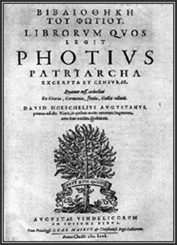 Cover of Bibliotheca or Myriobiblon, a 9th century work of Byzantine Patriarch Photius